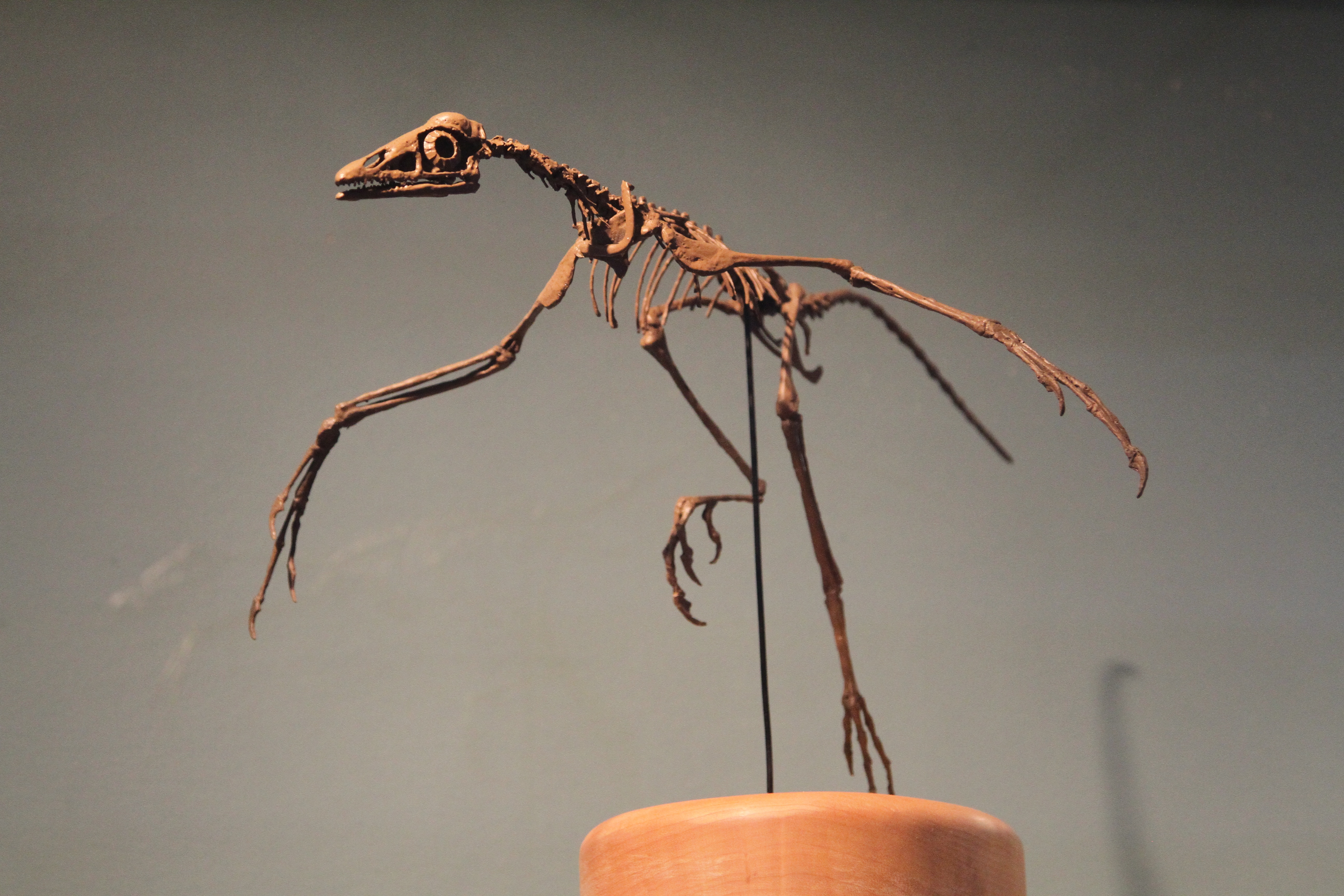 Academy of Natural Sciences of Drexel University 1900 Benjamin Franklin Parkway Philadelphia, PA 19103 March 18, 2013